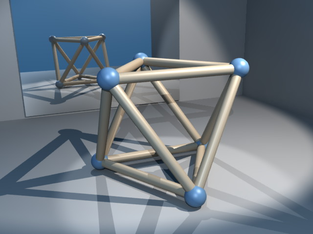 Wireframe of a octahedron